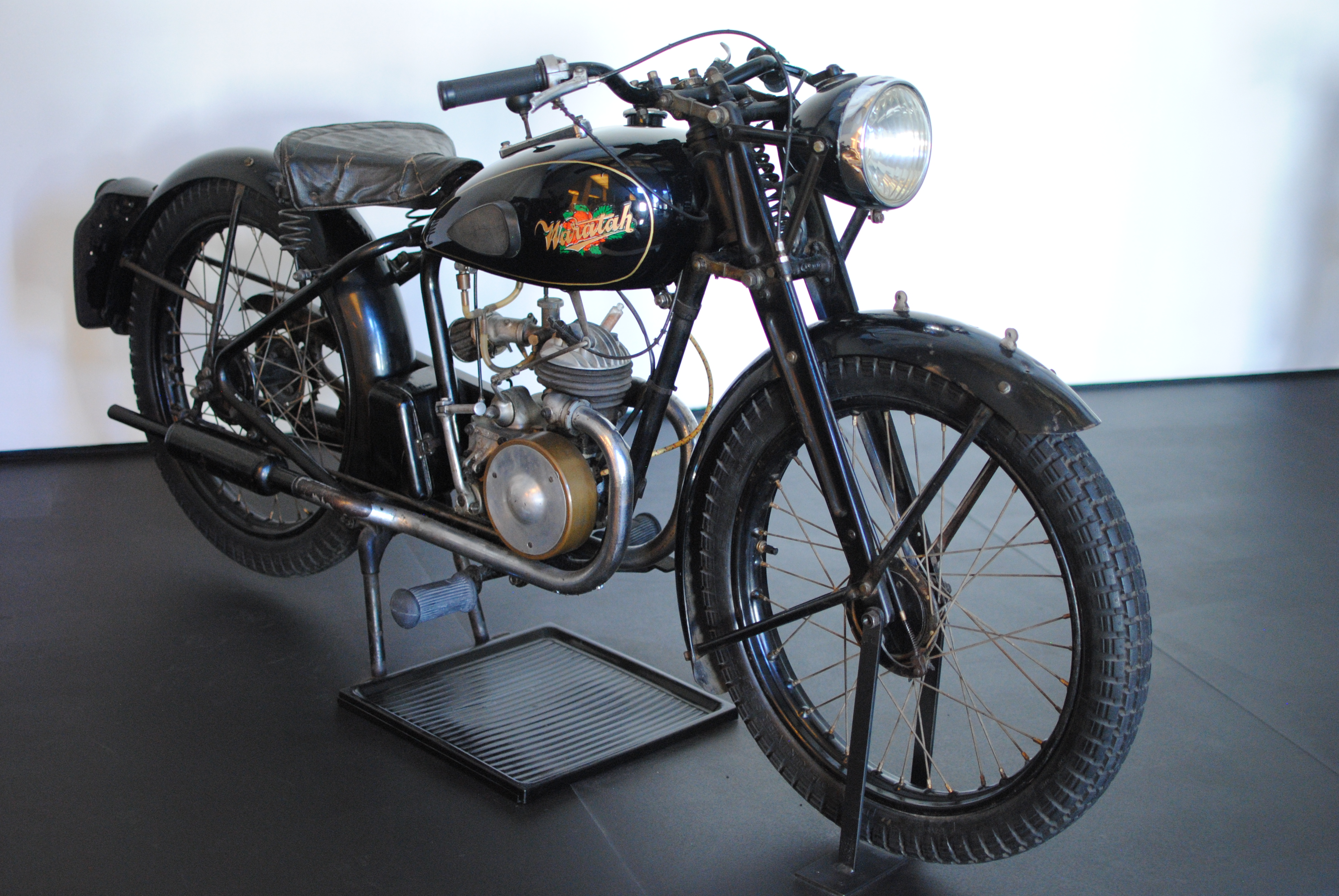 in the Powerhouse Museum, Sydney, NSW, Australia. [Camera's clock set to UTC]